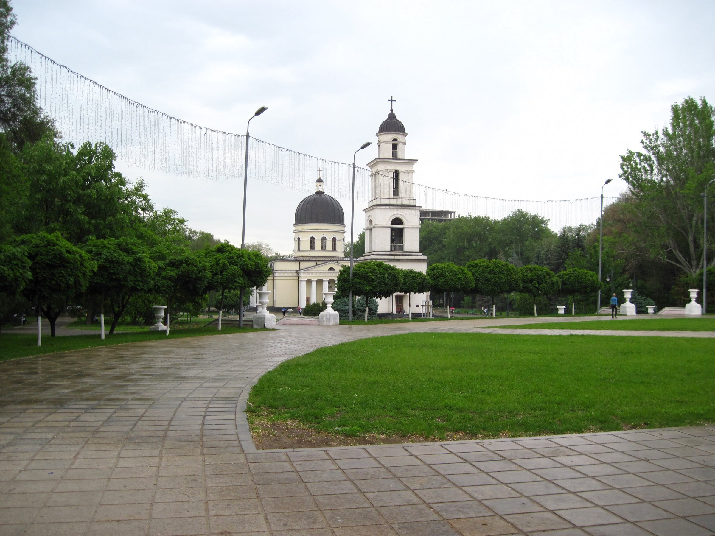 Cathedral and Bell Tower, just like an age ago